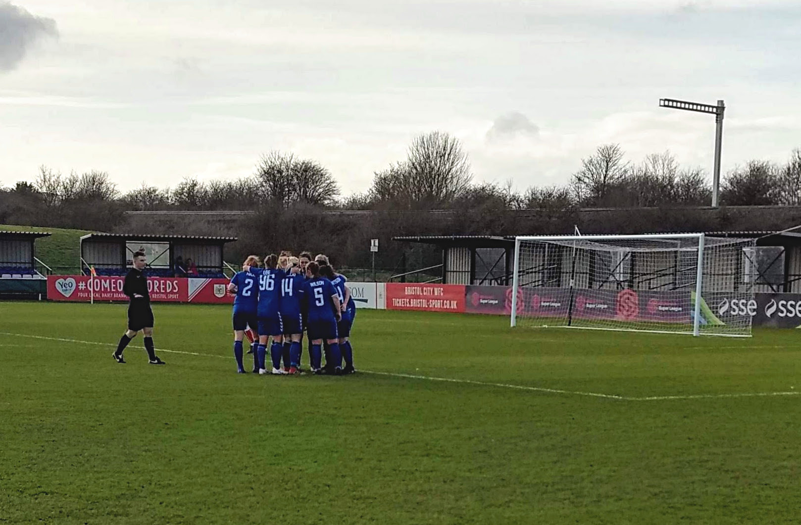 The Durham WFC team celebrate scoring their first goal in a 2-0 victory over Bristol City WFC in the fifth round of the FA Women's Cup on 17 February 2019. This was Durham's first ever away win against top flight opposition.